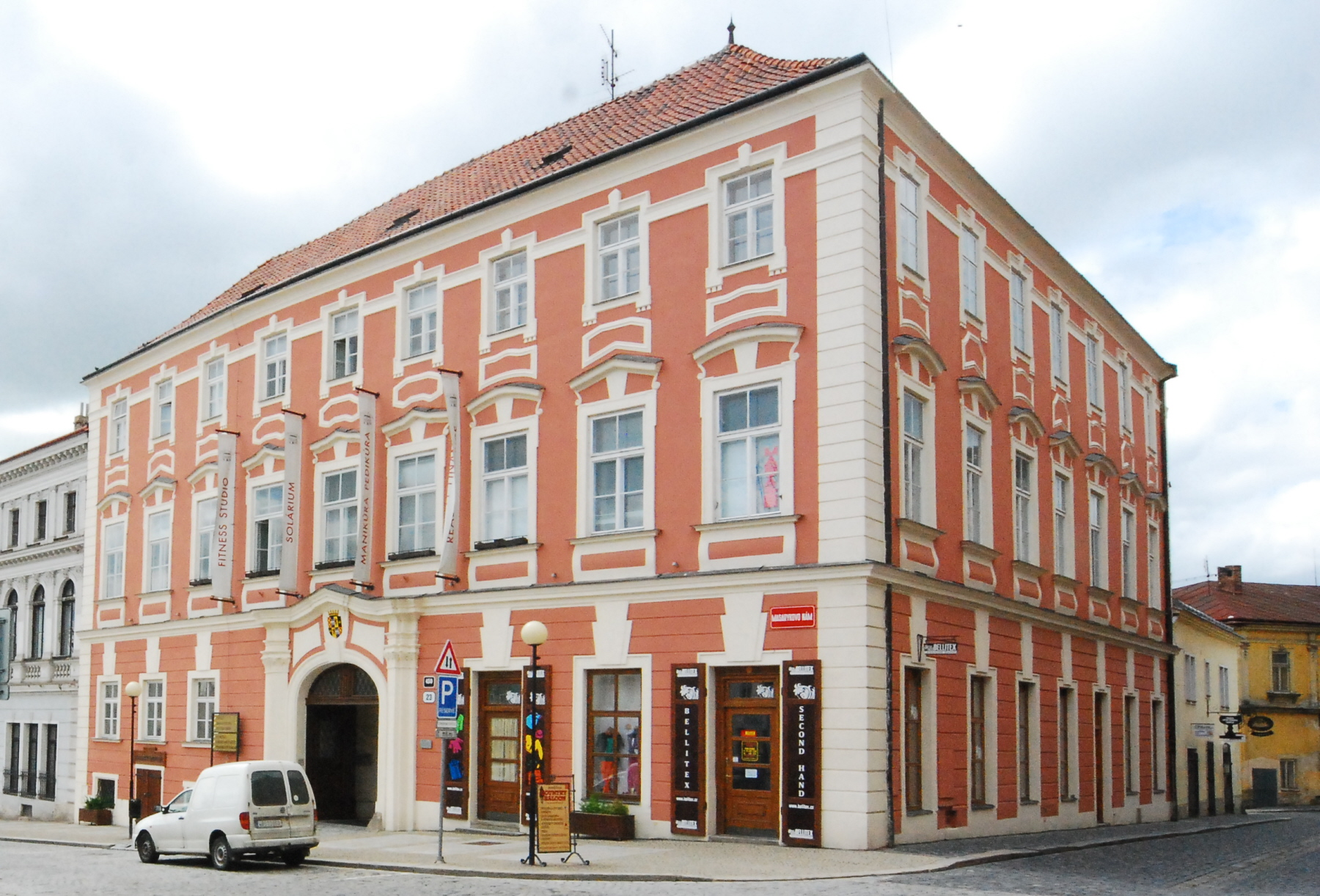 Palais Daun auf dem Masaryk náměstí in Znojmo (Tschechien)